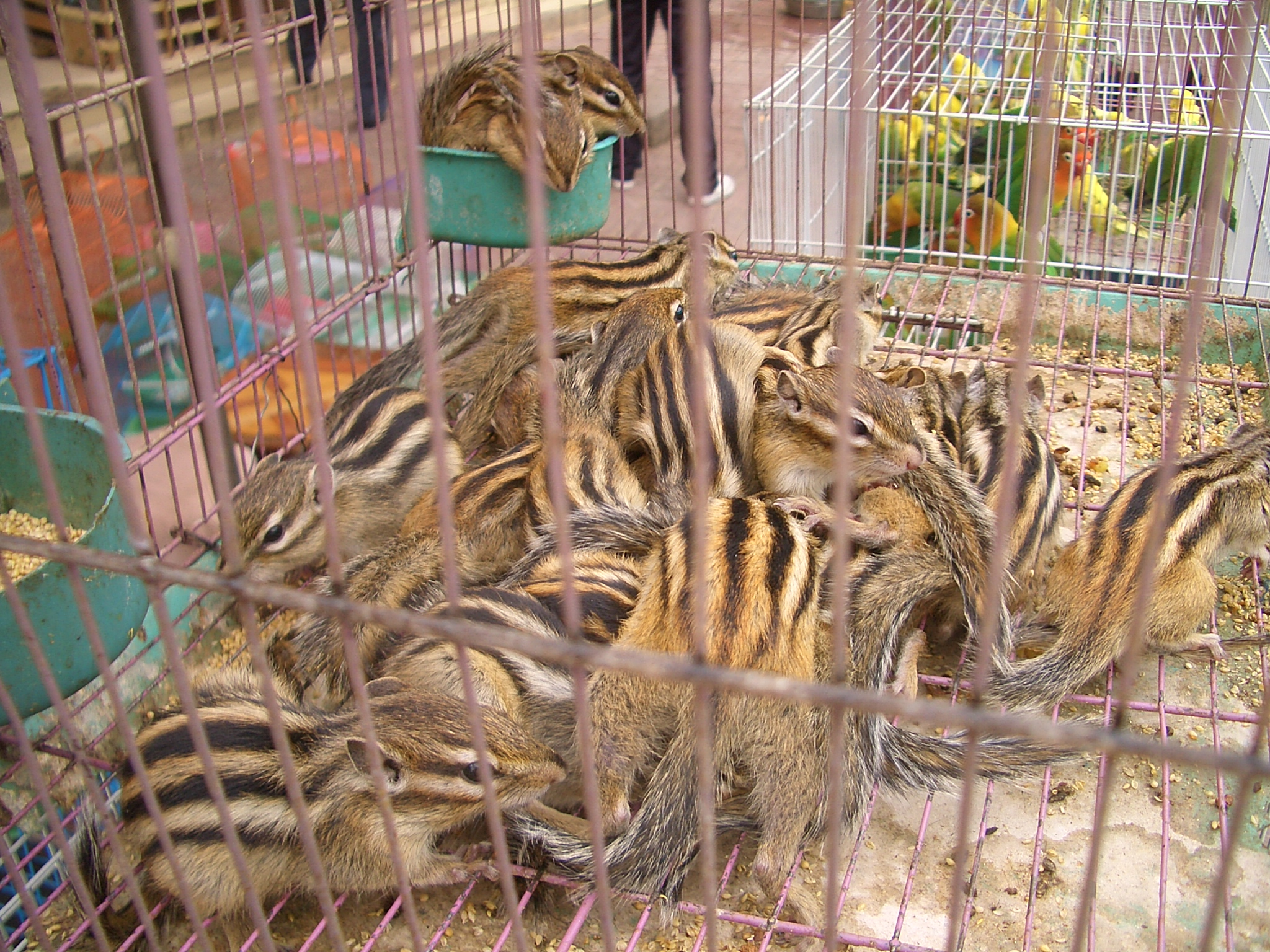 Siberian chipmunks, in a market in the Dongguan section of Linxia City. Crafts, souvenirs, books, and pets are sold in this section